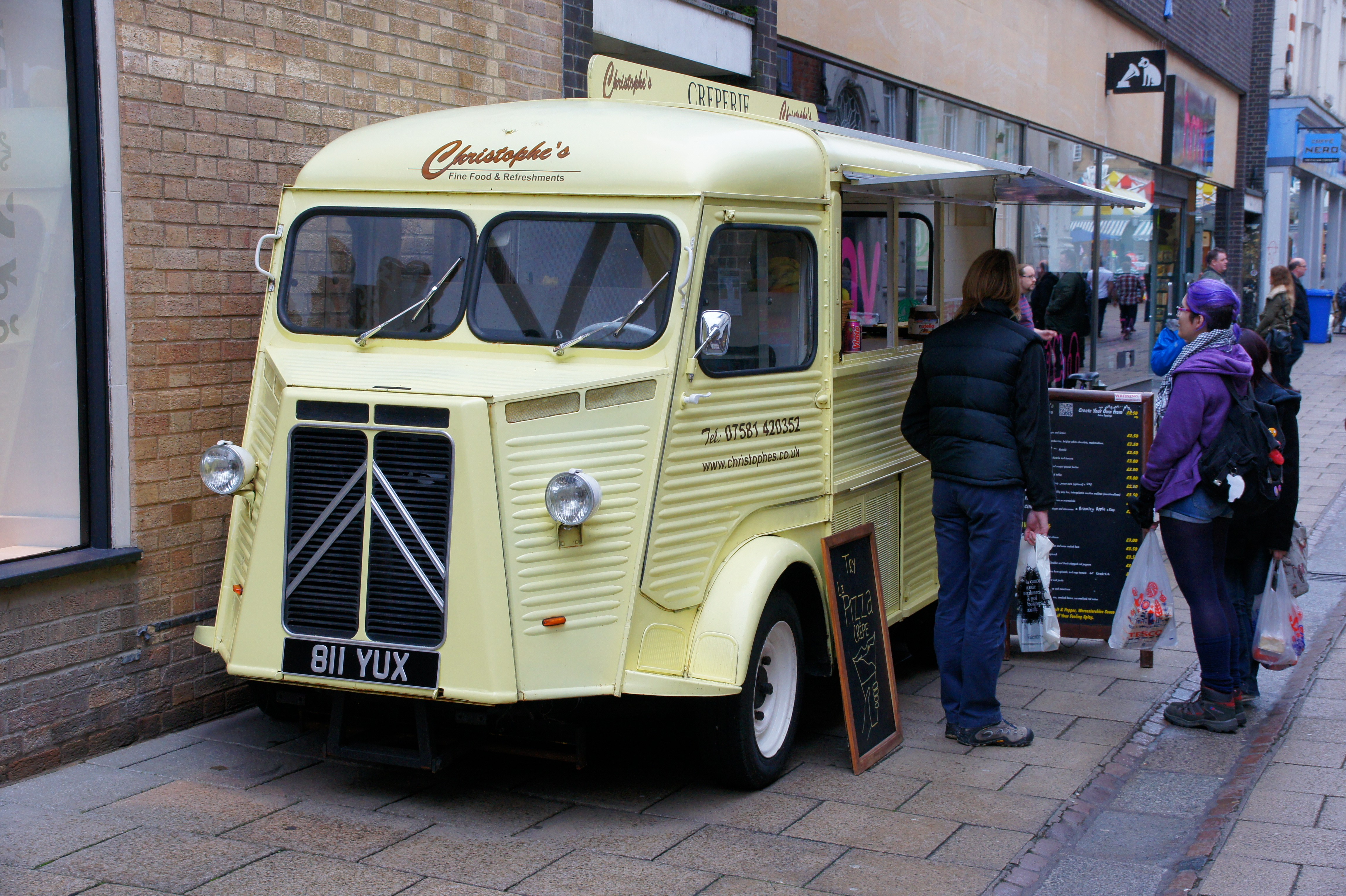 A Citroen something or the other